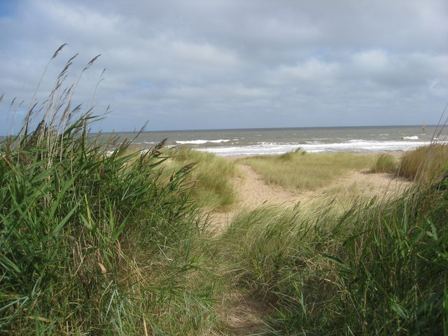 Anderby Creek First sighting past the cloud station.